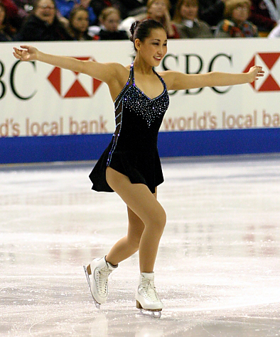 Jennifer Don takes a bow before her free skate at the 2004 Four Continents Championships in Hamilton, Ontario.